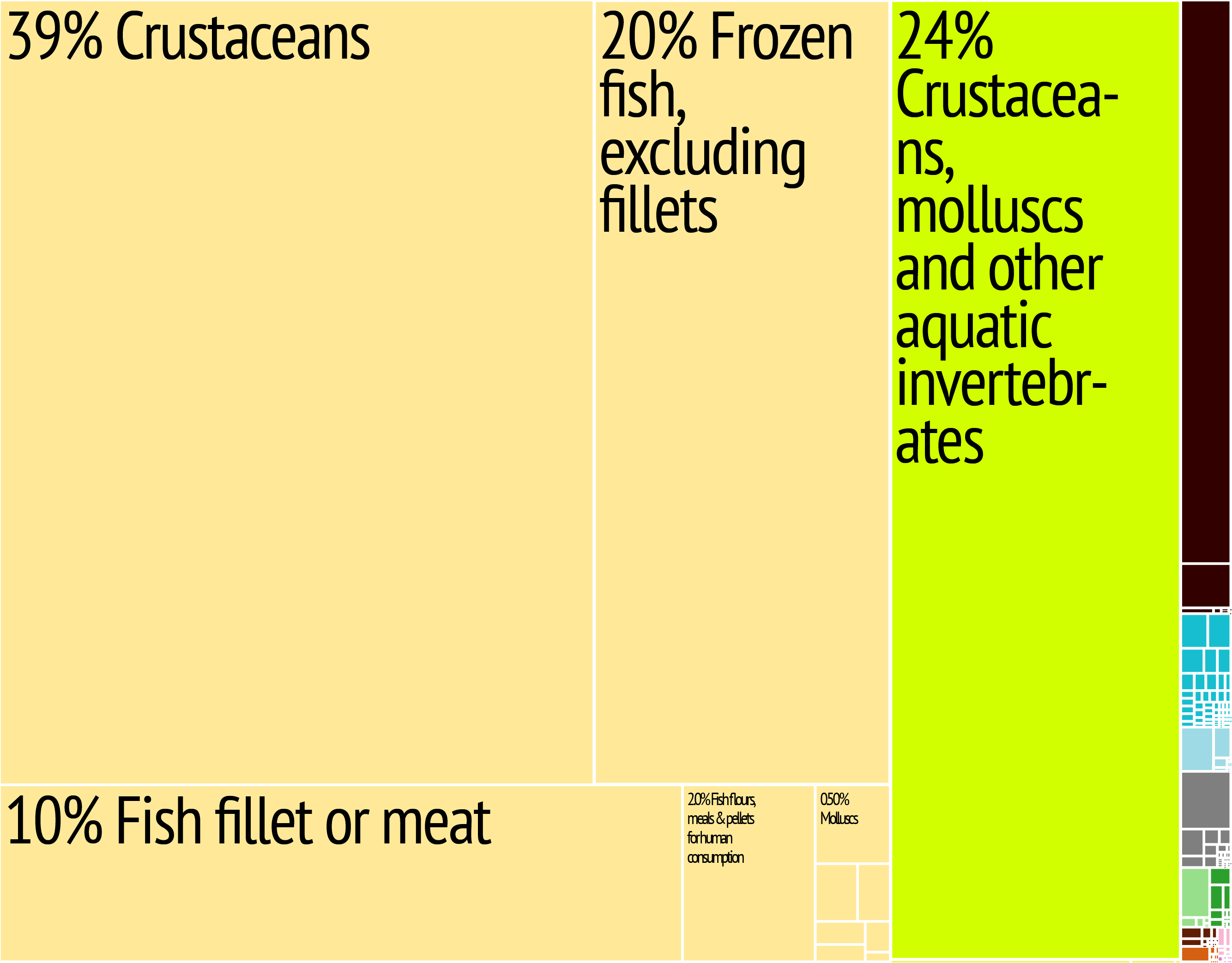 Greenland Export Treemap from MIT Harvard Economic Complexity Observatory